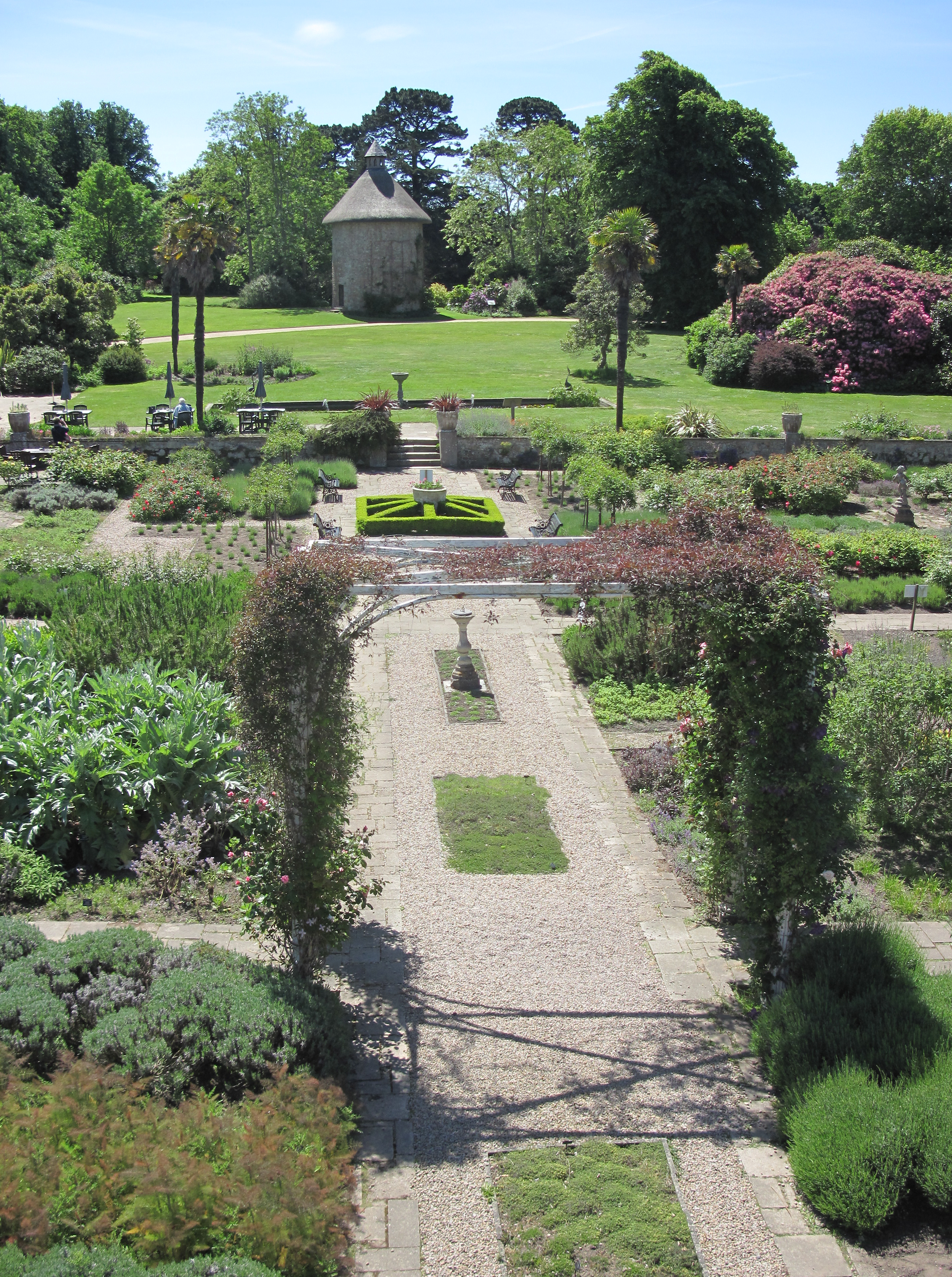 Samarès Manor, Saint Clement, Jersey, May 2011